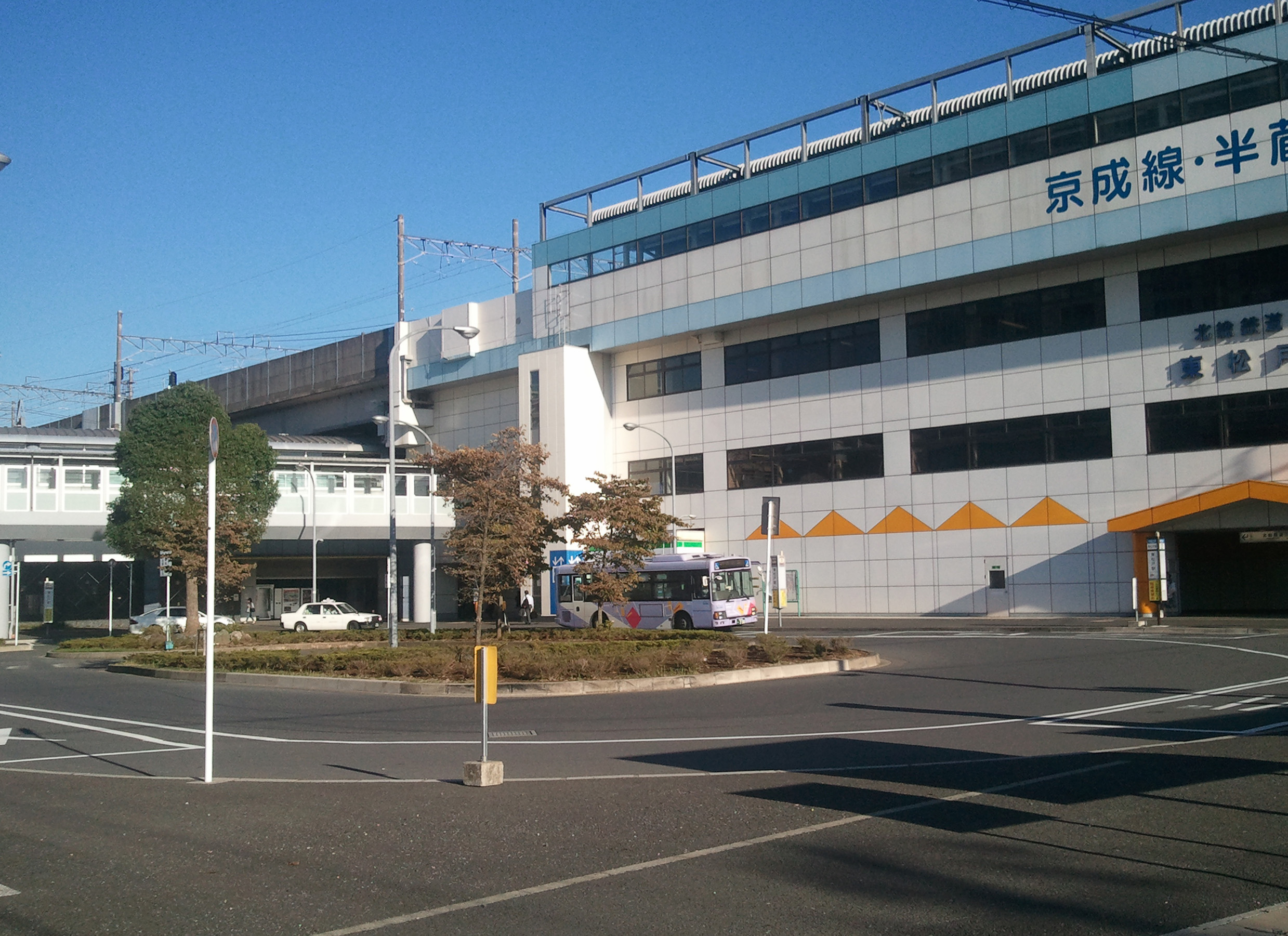 Higashi-Matsudo Station on the Hokuso Line and the Musashino Line